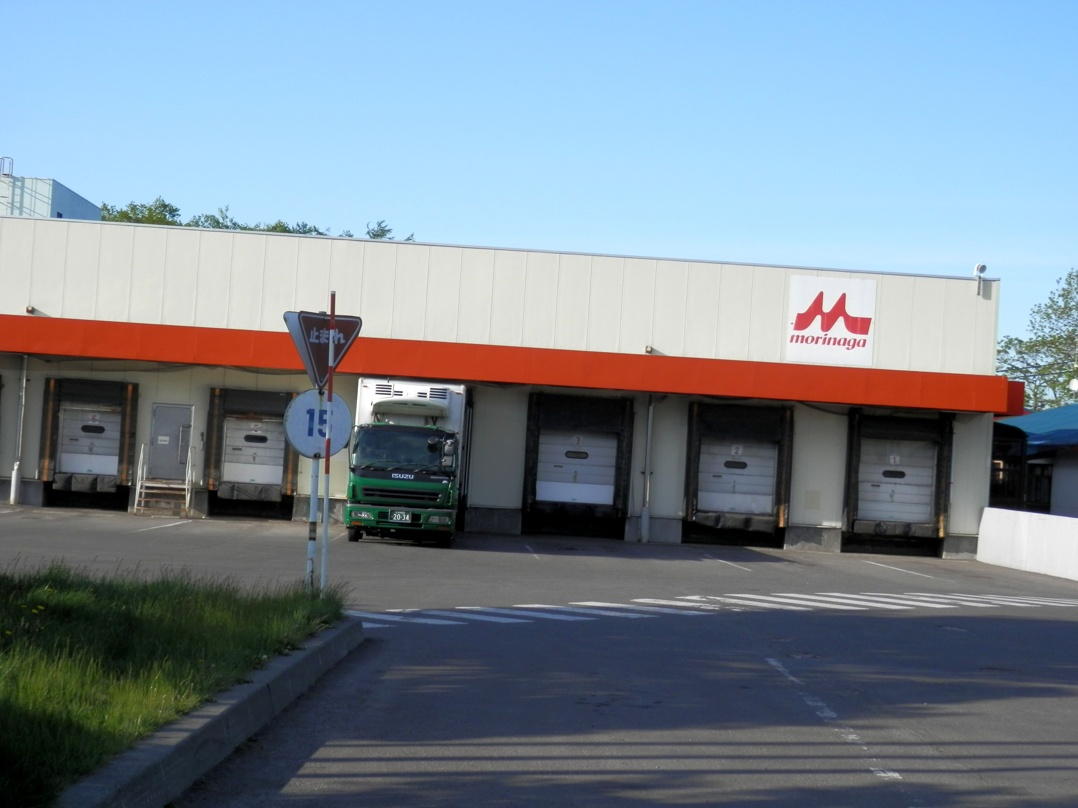 Morinaga Milk Factory in Eniwa, Hokkaido. Closed April 2013.